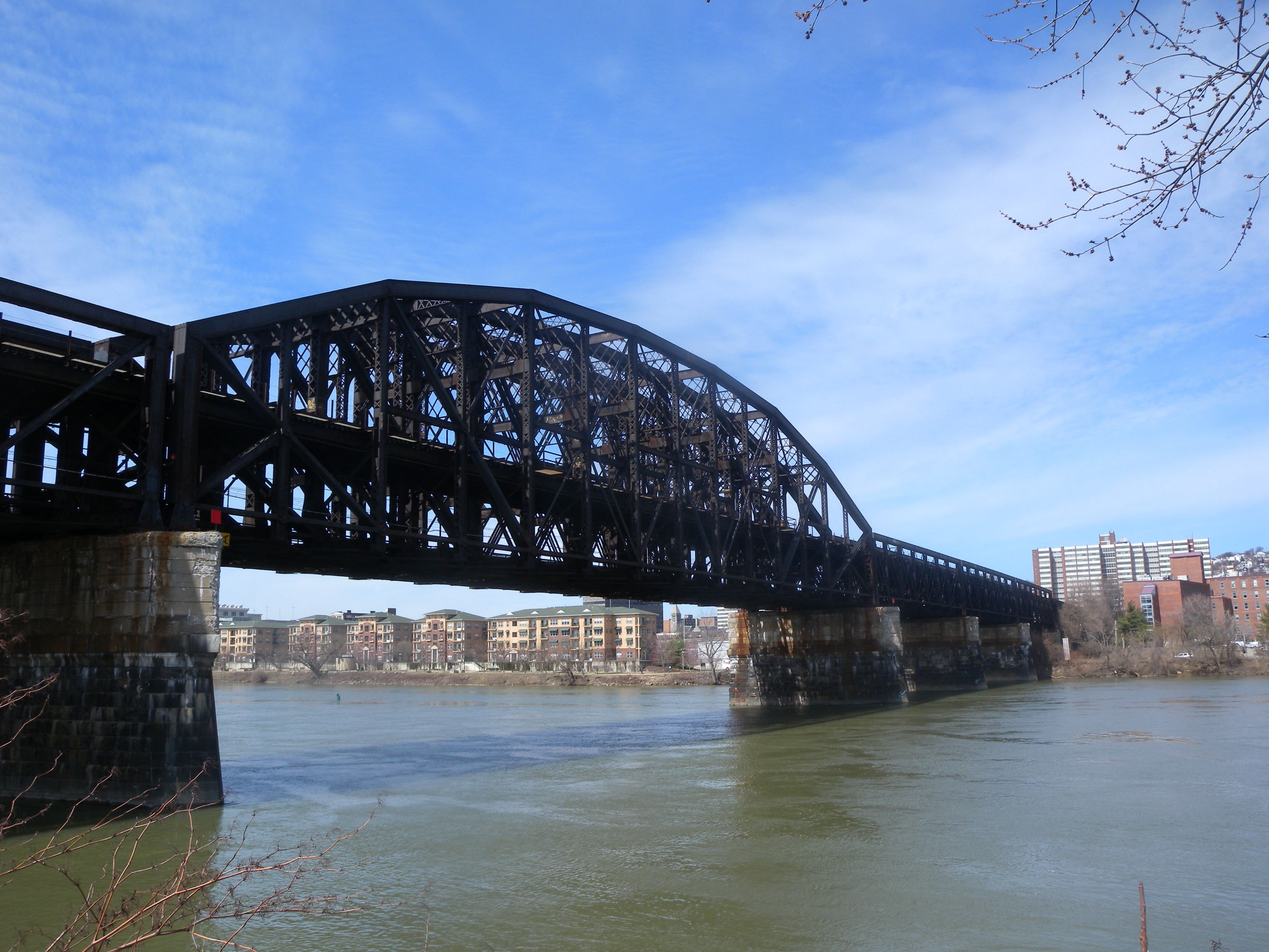 Looking northwest at Ft Wayne bridge on a mostly sunny midday.